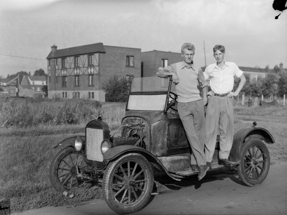 Two young men stand on the running board of a car Ford 1923.